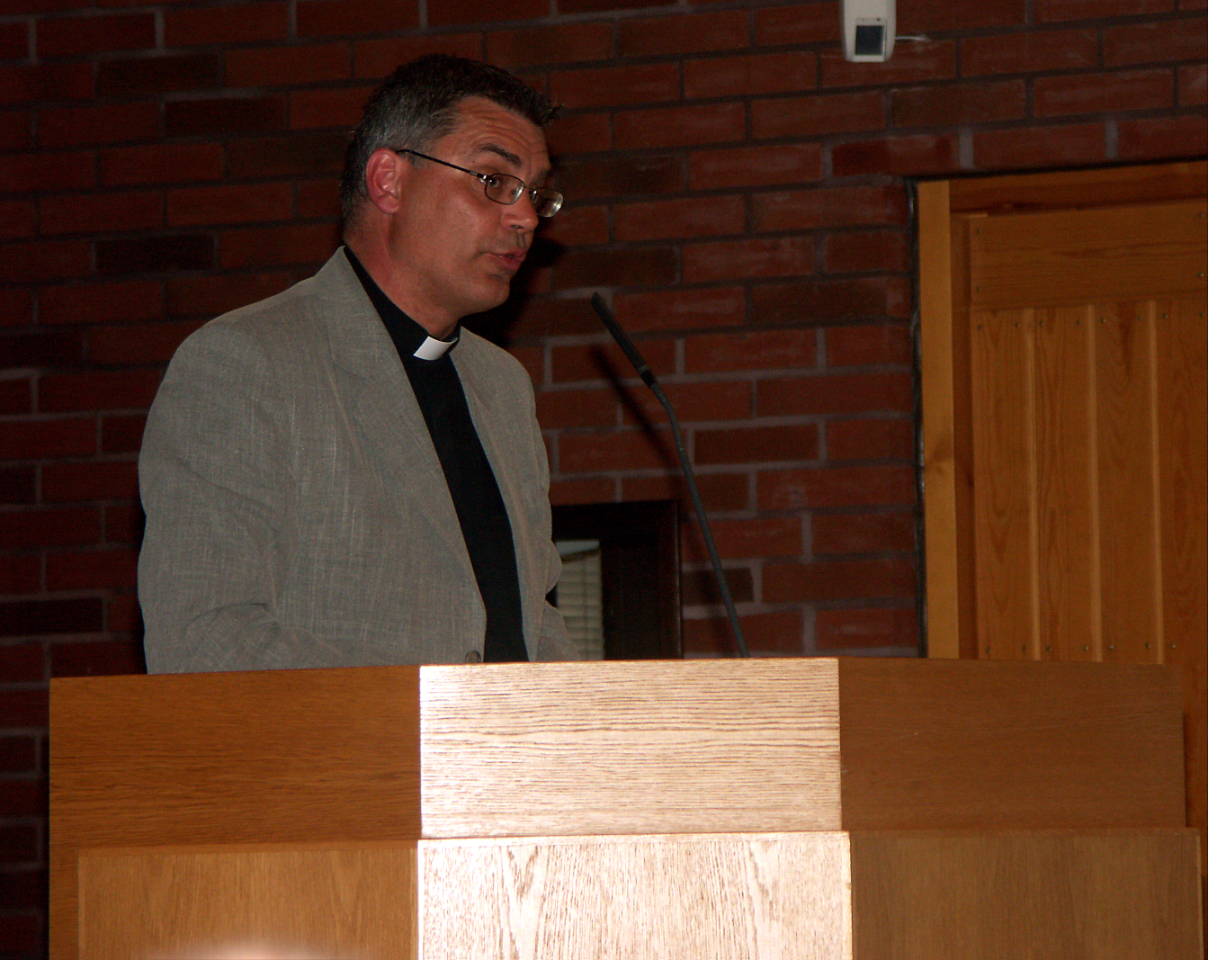 Göran Zettergren, director of the Mission Covenant Church of Sweden.